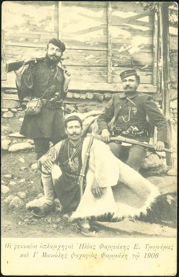 Picture of greek andarts Farmakis, Tromaras and Manolis